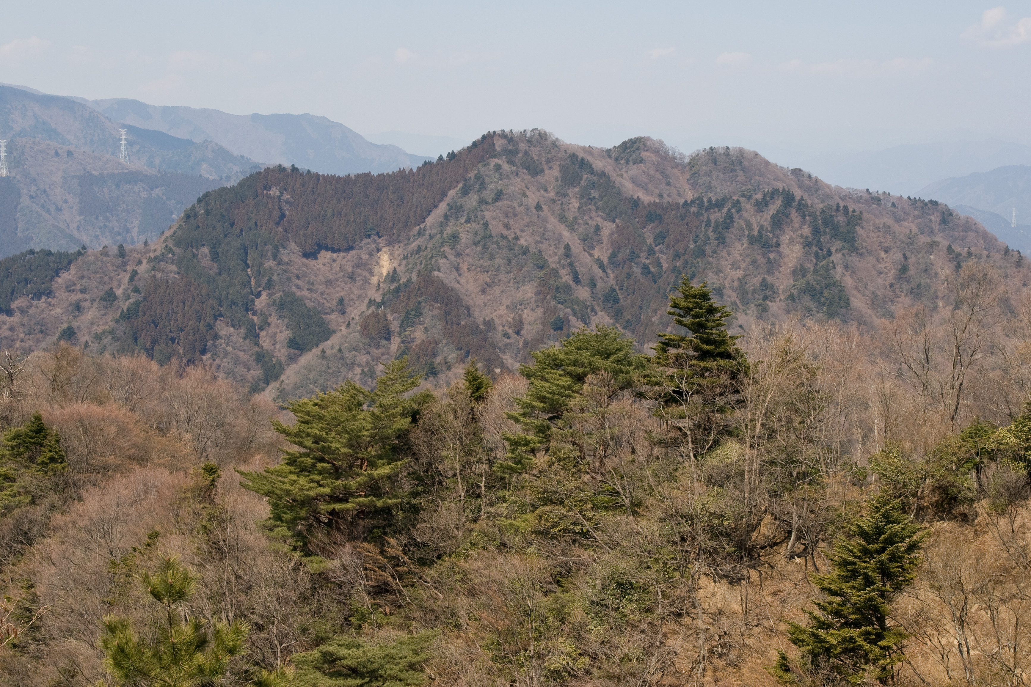 Mt.Nabewarashi seen from Mt.Oyama-mitsumine, Mts.Tanzawa, Honshu, Japan.